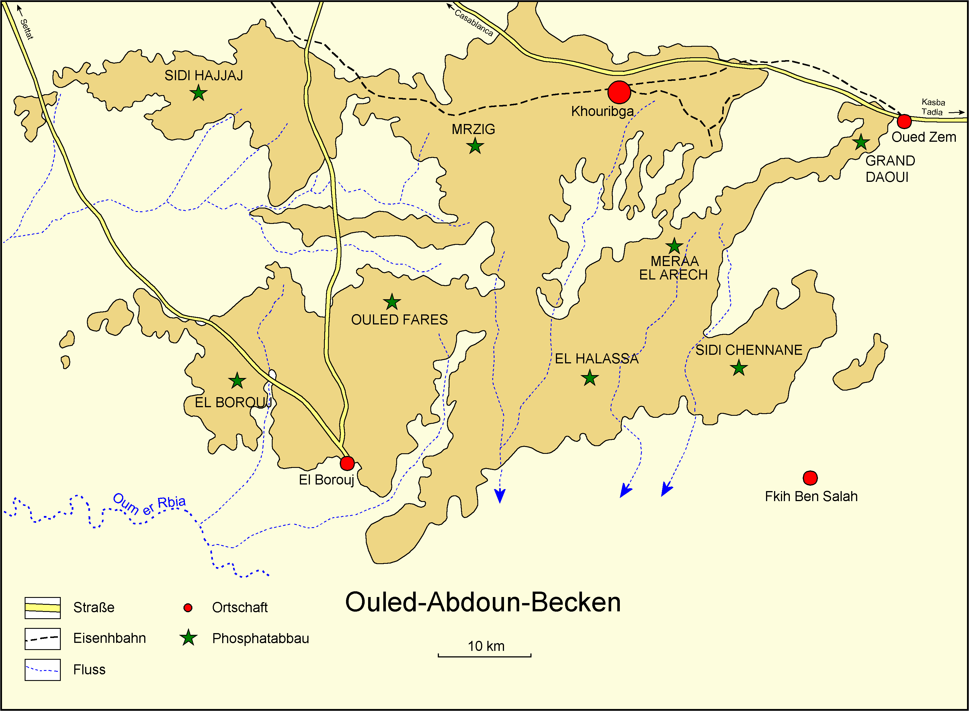 Map of the Ouled Abdoun basin, Central Morocco, with important phosphate sites, redrawn after: Johan Yans, M'Barek Amaghzaz, Baâdi Bouya, Henri Cappetta, Paola Iacumin, László Kocsis, Mustapha Mouflih, Omar Selloum, Sevket Sen, Jean-Yves Storme and Emmanuel Gheerbrant: First carbon isotope chemostratigraphy of the Ouled Abdoun phosphate Basin, Morocco; implications for dating and evolution of earliest African placental mammals. Gondwana Research 25, 2014, pp. 257–269 (fig. 1)